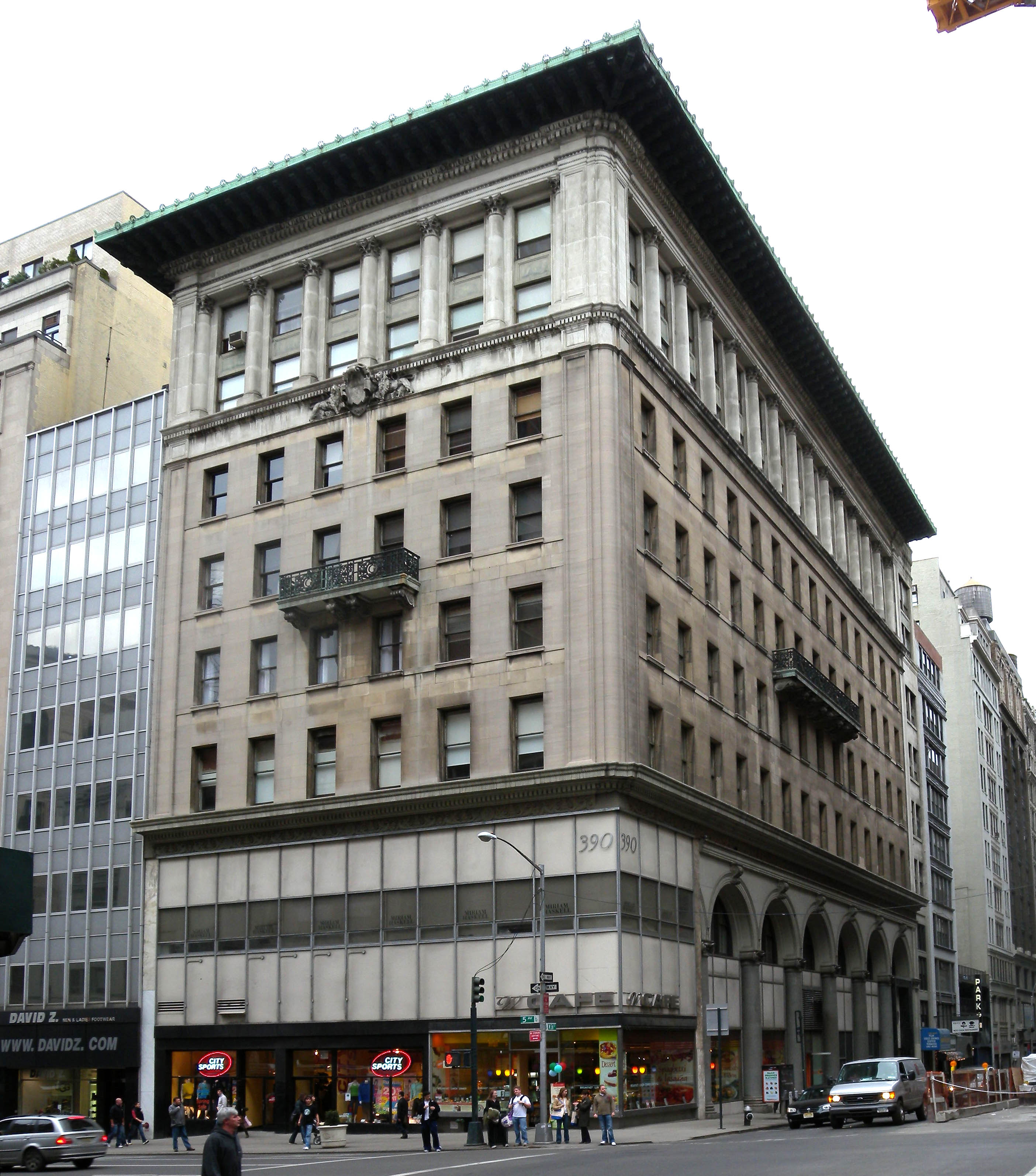 Looking west across 5th Avenue and 36th Street at the former showroom and office building of Gorham Manufacturing Company on a cloudy midday.